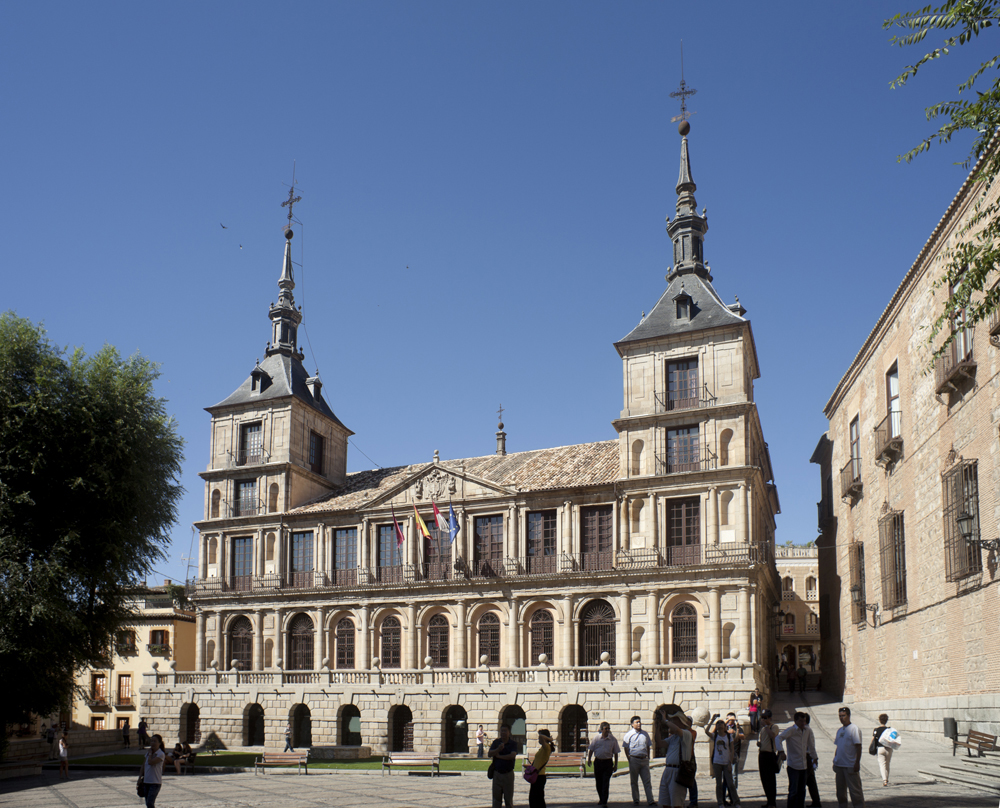 Toledo City Hall, Spain